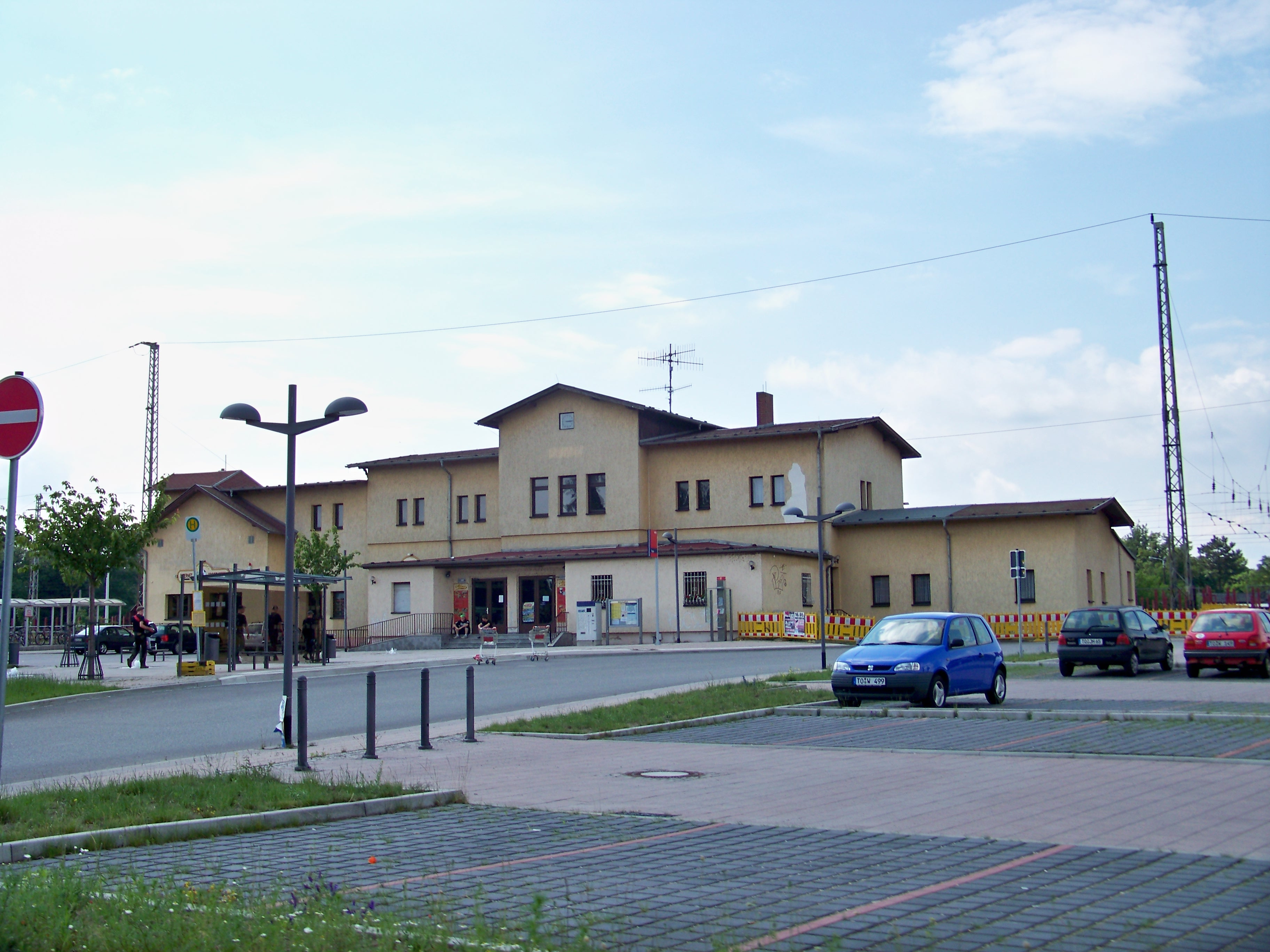 Station of Torgau/Saxony